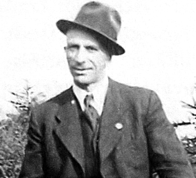 Heinrich Czerkus